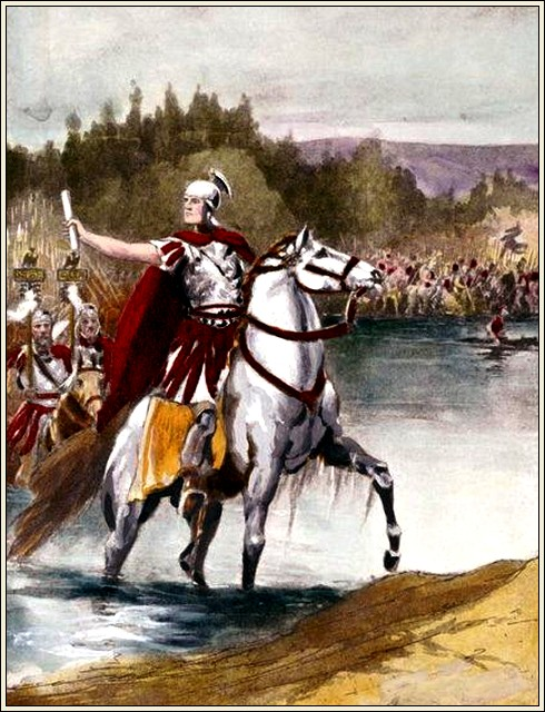 "Crossing the Rubicon" from Abbott, Jacob, 1803-1879. History of Julius Caesar.